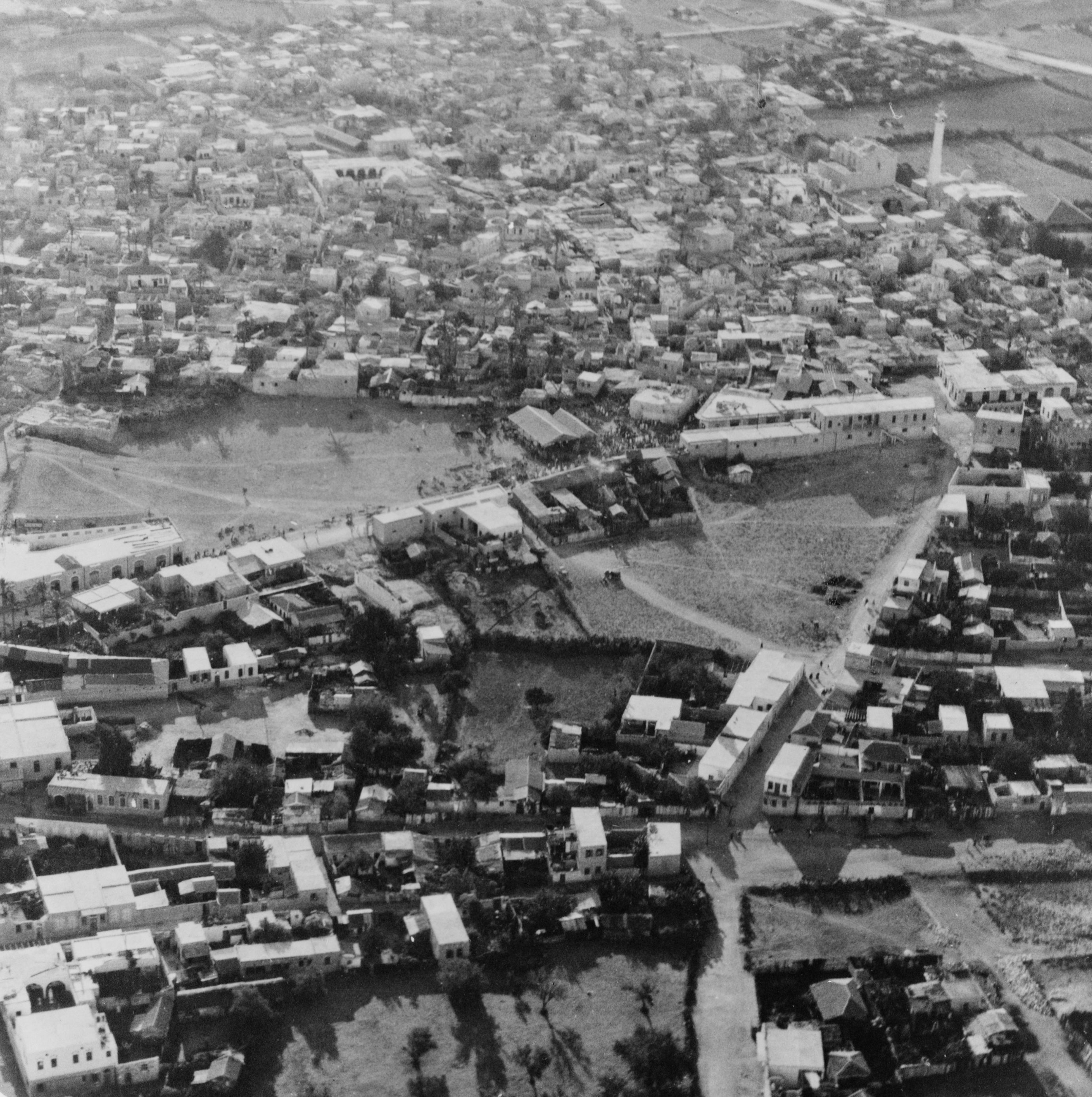 No known restrictions on publication.